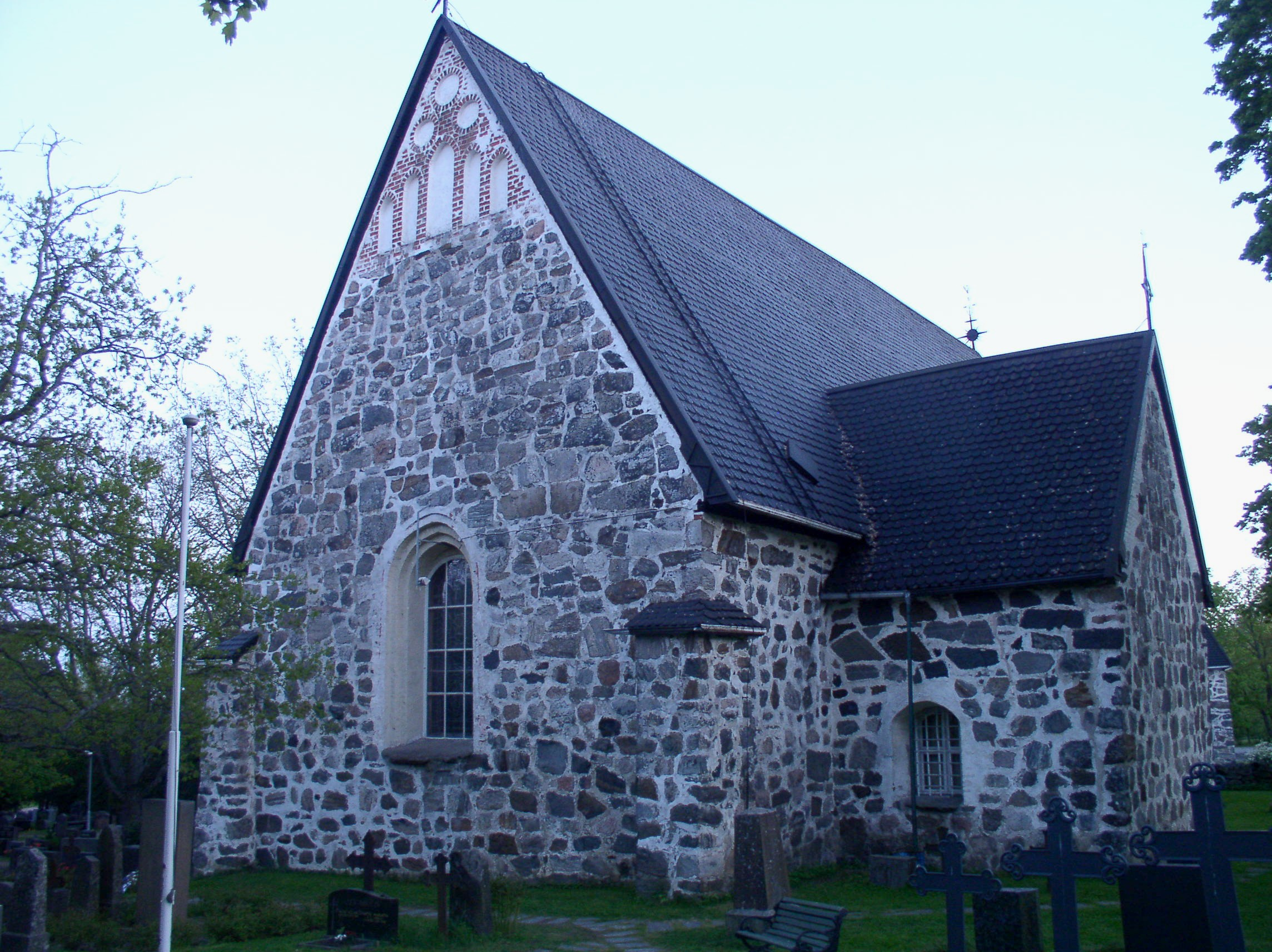 Masku church in Masku, Finland.